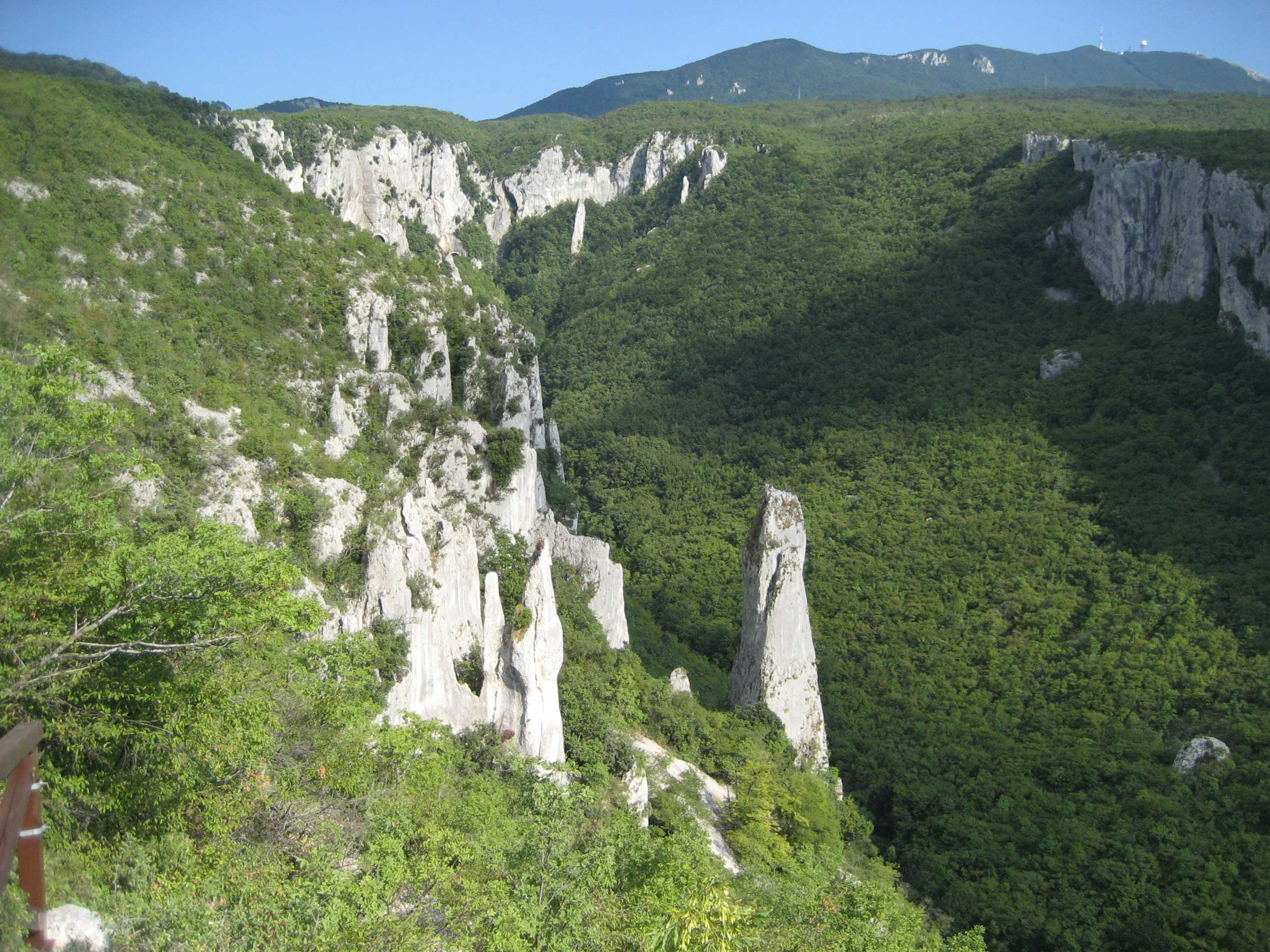 Vela Draga 2008 Valley, Northwest_Croatia